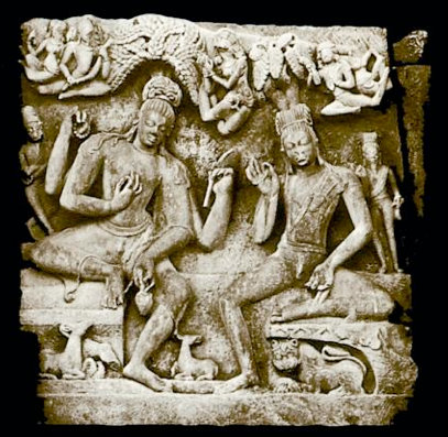 ~ NaraNarayana ~ DasAvatara Mandir ~ early 6th, GUPTA Deogarh, Lalitpur Dist., UP